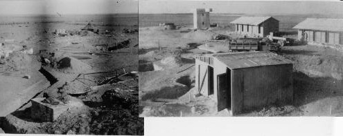 Nirim. 1948